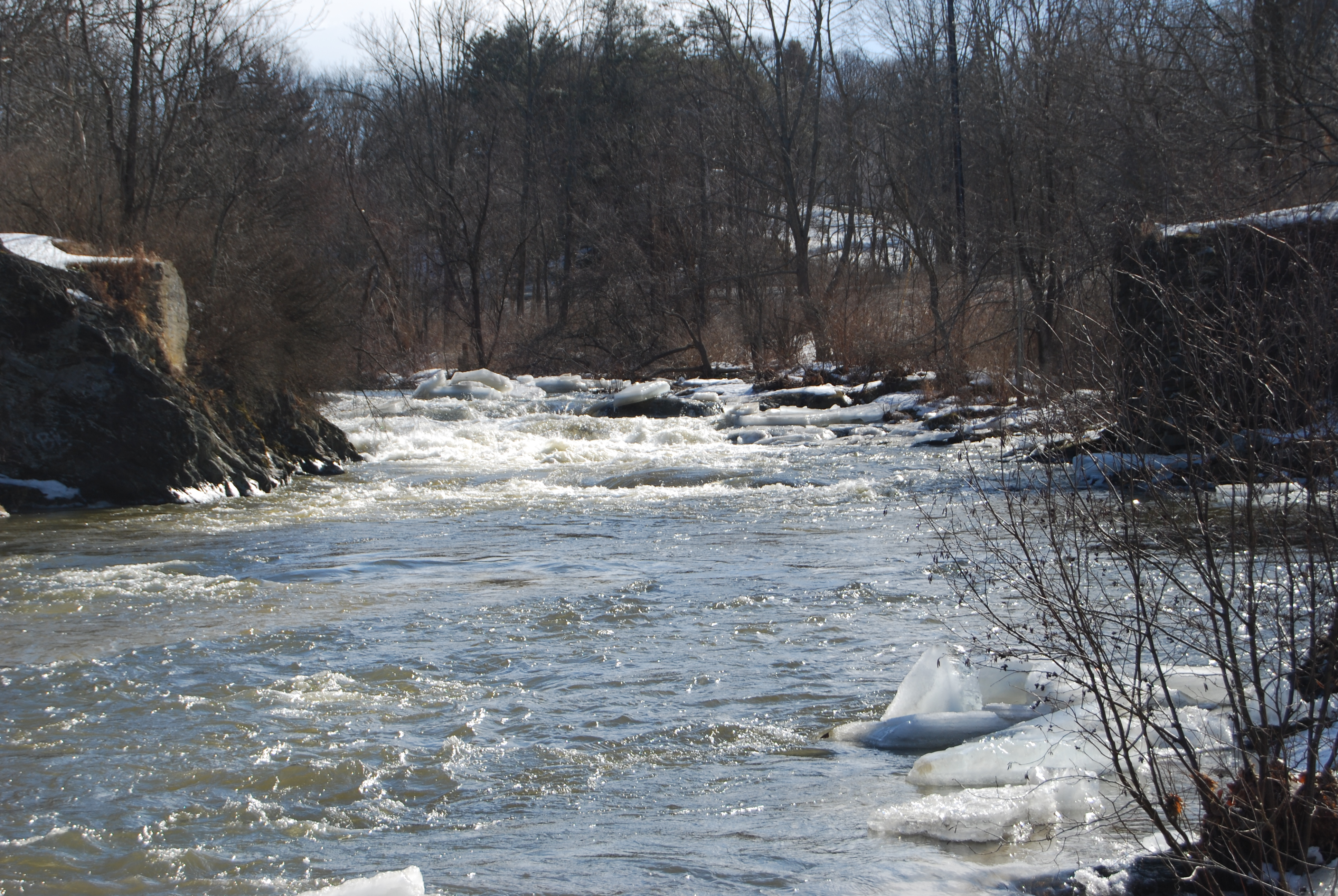 View of the Poesten Kill in Brunswick, New York, United States from New York Route 2 after an ice storm in winter